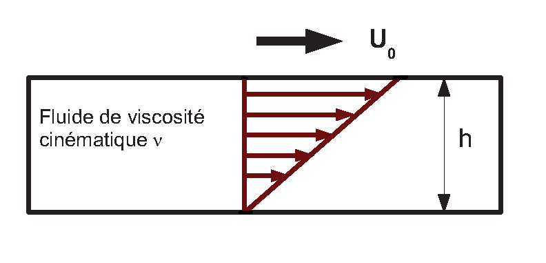 Representation of a plane Couette flow.